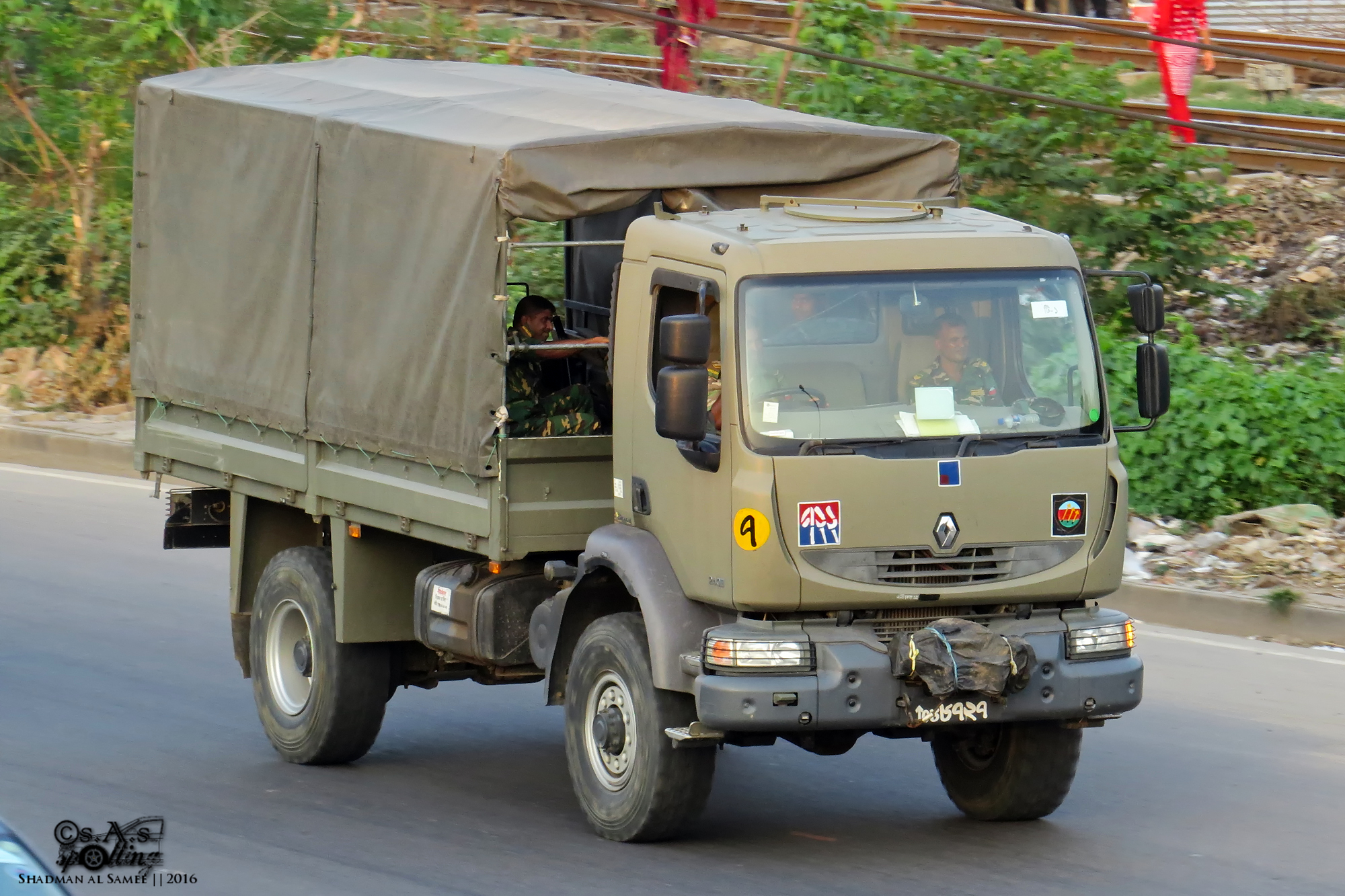 Airport Rd 2016: First time spotting one!